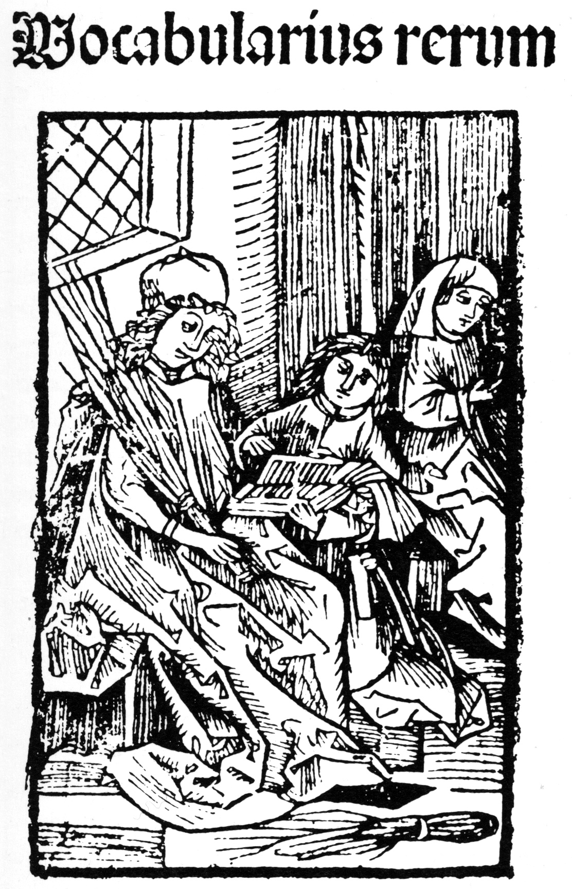 Woodcut from the title page of Wenceslaus Brack: Vocabularius rerum, 1487. The picture shows the teacher of a latin school and two students; one of them following the teacher's reading from a book.